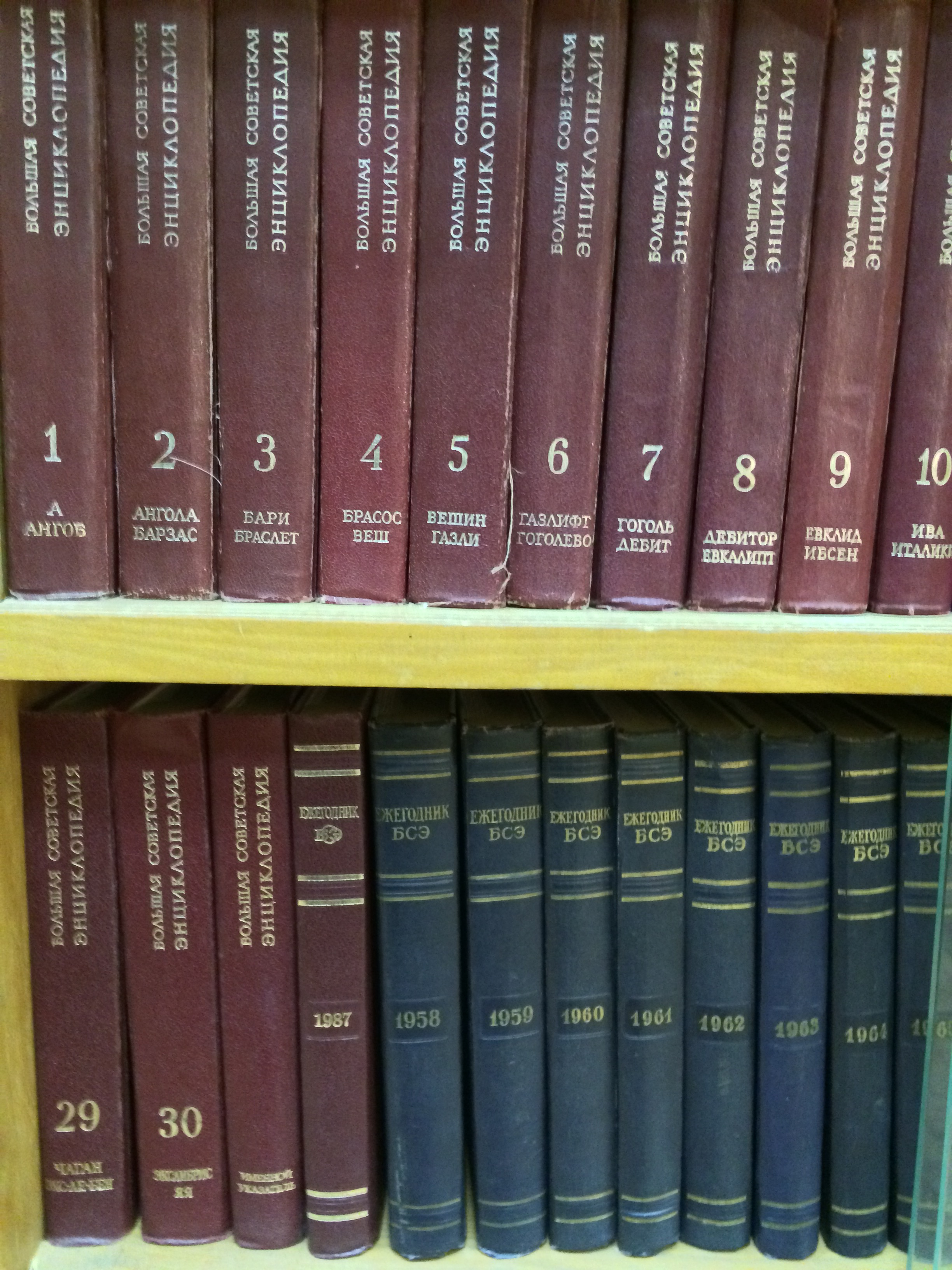 Great Soviet Encyclopedia (3d edition)